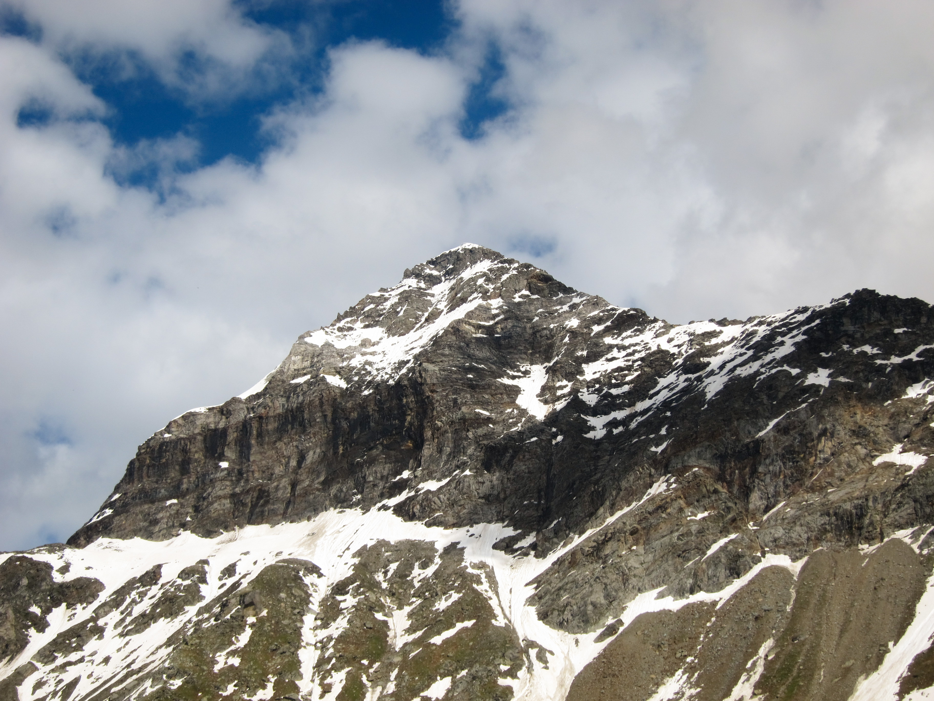 Pizzo Scalino mountain (3.323 m s.l.m.) in Valmalenco, Sondrio, Lombardia, Italy. Foto scattata il 2018-06-09.